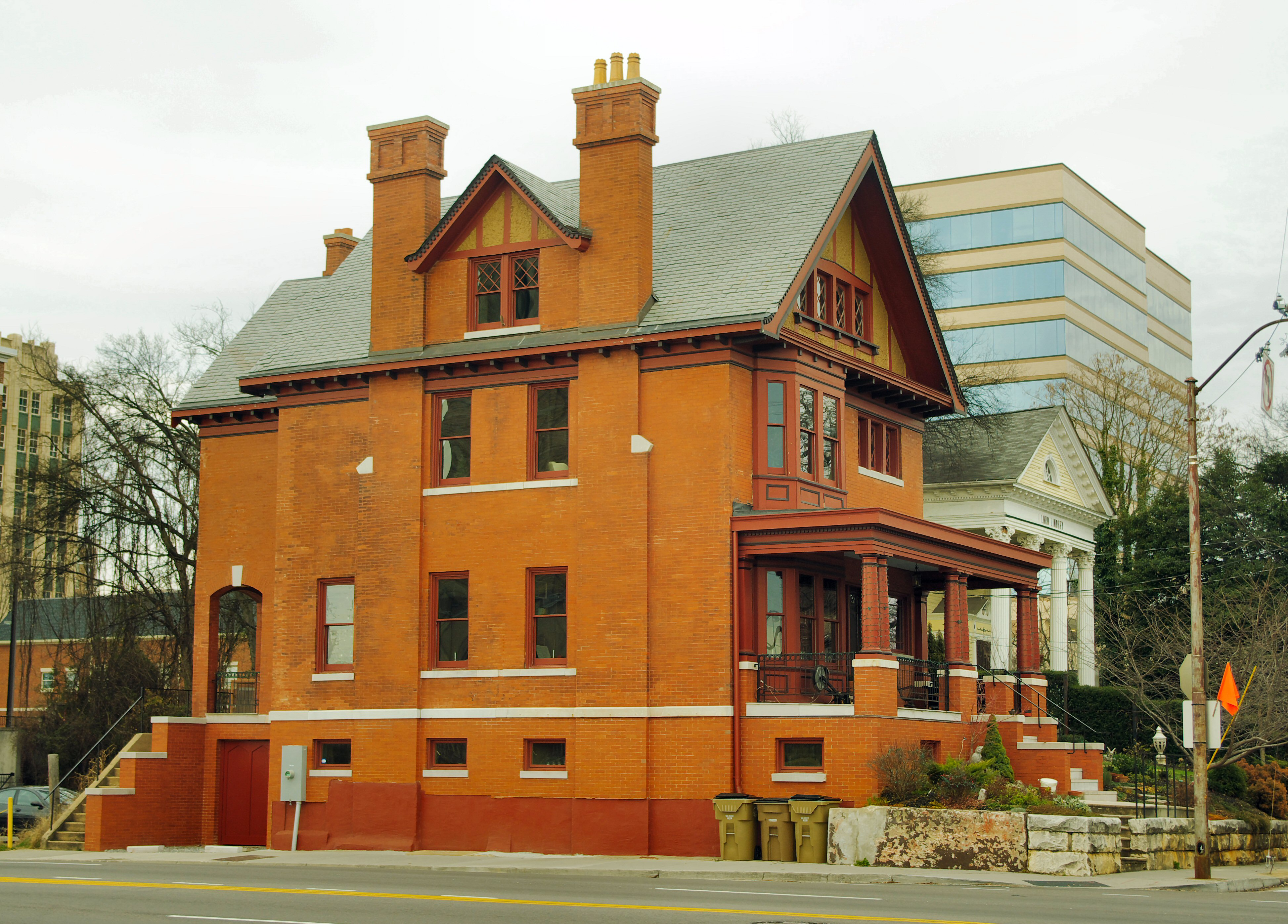 The Mary Boyce Temple House at the corner of Henley Street and Hill Avenue in Knoxville, Tennessee, USA. Built in 1907, the house was originally occupied by the Chambliss family. Mary Boyce Temple (1856–1929), a prominent Knoxville feminist, philanthropist, and socialite, lived in the house from 1922 until her death in 1929. The house has recently undergone restoration efforts with the help of the city and architect Brian Pittman.